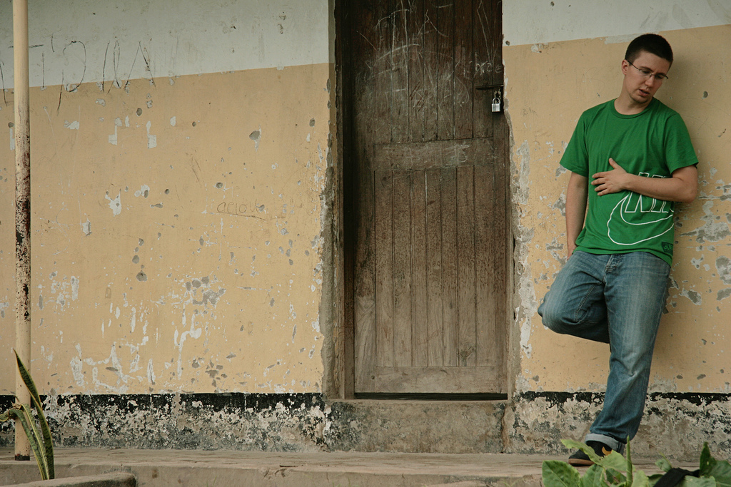 Prinz Pi at a school in Dar es Salaam Tanzania recording a videoclip. This photo was taken during the Virus Free Generation Hip-Hop Tour.